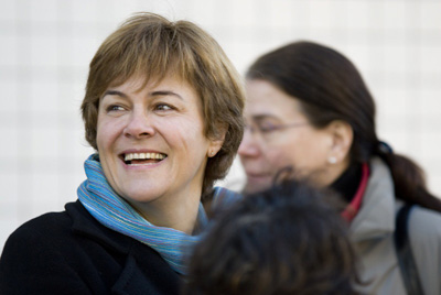 Dominique Voynet during the municipal elections campaign, Montreuil